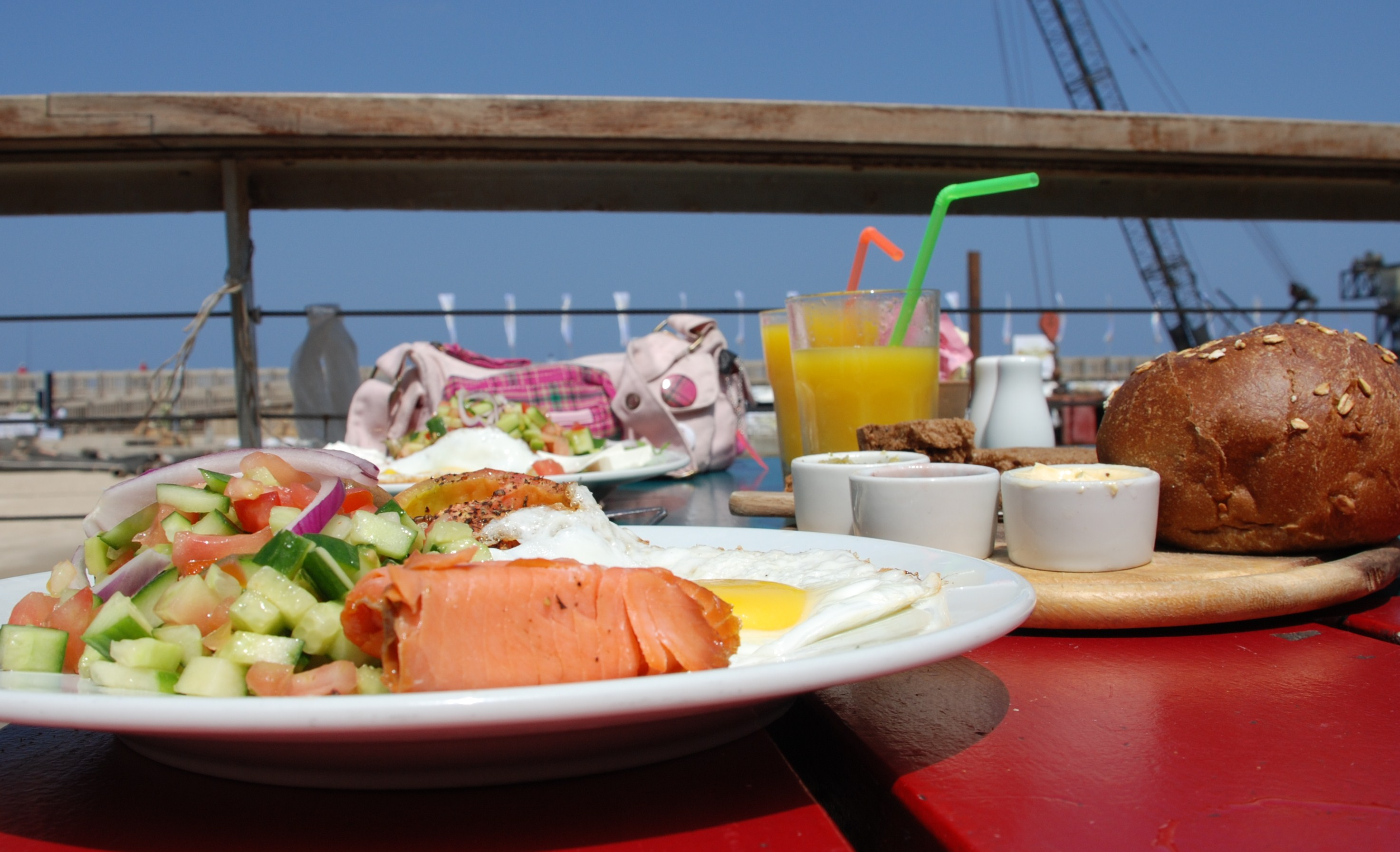 Here is breakfast at Badulina, Tel Aviv port, which was surprisingly good. Pros: They gave us a double breakfast that was actually composed out of two complete normal breakfasts, which was very generous. Most of you know the place, the atmosphere is nice - it's good to eat in an outdoor place with a view for a change. There was a great variety: you can choose from about 5 different kinds of breakfasts - Moran had hers with some white cheese and I chose the smoked salmon. Cons: As a single breakfast (we ate a double), it's more honest than other places (there are no plates, just salad, eggs and one extra to choose from). Personal tilt: Excellent. Overall: 9/10 About The 7 Breakfasts series: My employers gave me seven free double-breakfast coupons with a certificate of appreciation thingy. Me and Moran, hopeless breakfast fanatics, decided to document each of the morning glories.